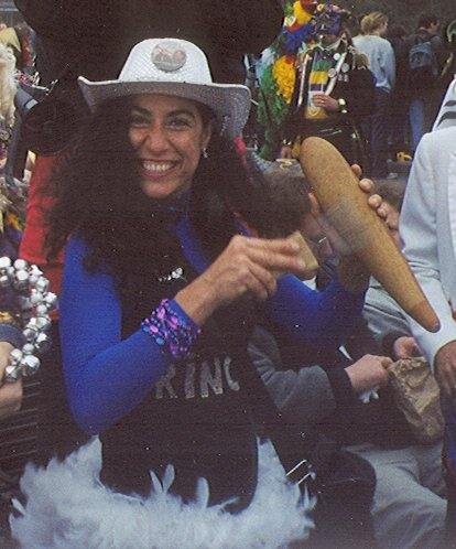 Musicians, New Orleans Mardi Gras. Krewe of Kosmic Debris, in front of Jackson Square in the French Quarter, Mardi Gras Day, 2003. Güiro player.